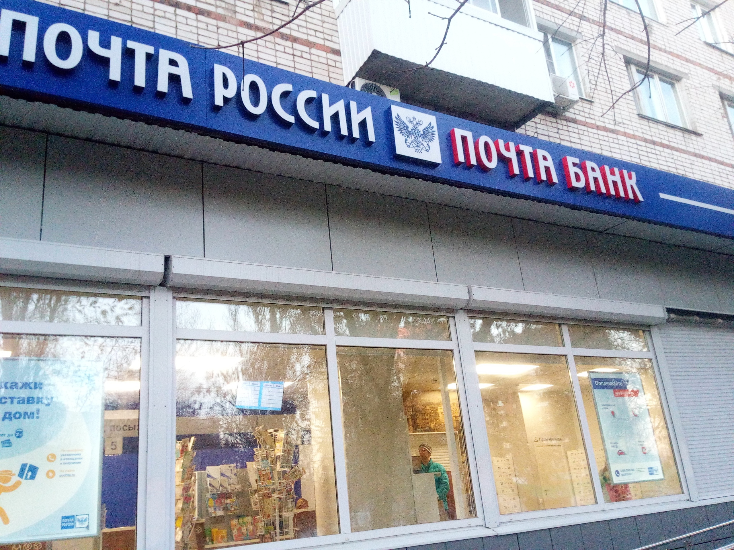 Post of Russia - Post of Bank